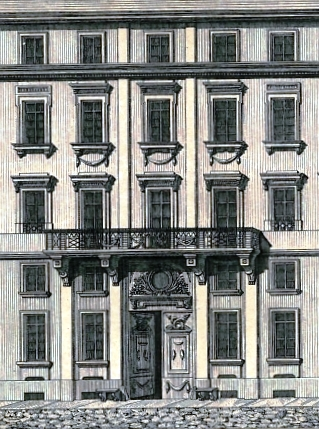 s.o.